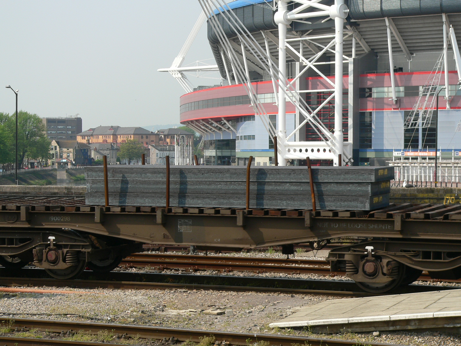 A closeup of a freight wagon hauled through Cardiff Central railway station by an EWS Class 66 diesel locomotive. The cargo looks to be slab steel, making it most likely to have come from the Port Talbot works. The Millennium Stadium is in the background